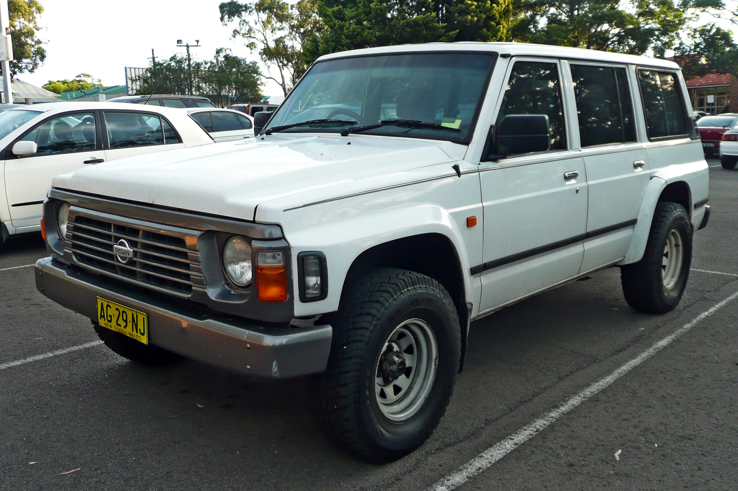 1997 Nissan Patrol (GQ II) RX wagon. Photographed in Sutherland, New South Wales, Australia.